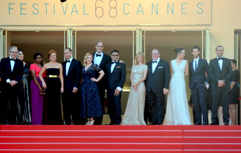 Director and cast (English and French-language versions) of "Inside Out" at the Cannes film festival